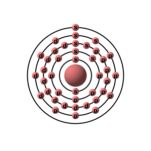 This is a part of a series of drawings of the individual elements electron configuration: Each diagram shows the electron shells with the number of electrons, and furthermore, each electron bears a letter "s", "p", "d" or "f" which shows the orbital electrons belong. This drawing depicts electron configuration in a atom: The big ball in the middle depicts the nucleus, and the little balls are electrons. The color on the big ball in the middle is green for non-metals, blue for the noble gases, violet for actinoids, purple pink for transition metals, red alkali metals, gray for "Other metals", yellow for halogens, orange for the alkaline earth metal arts and brown for half metals.